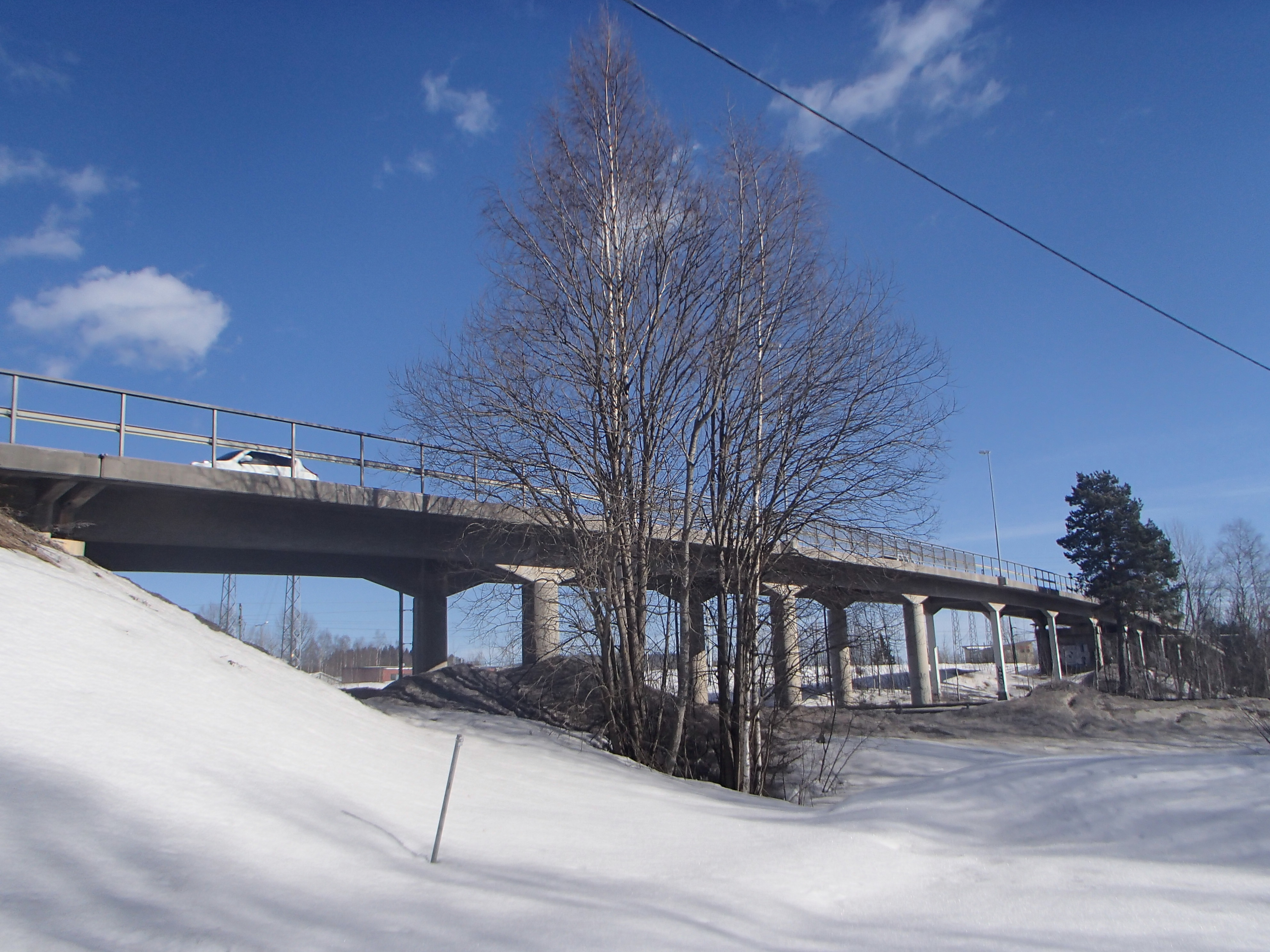 Bergsåkersbron, a bridge across both the national road (riksväg) 86 and the Ådalen railway line in Sundsvall, Sweden, viewed from west